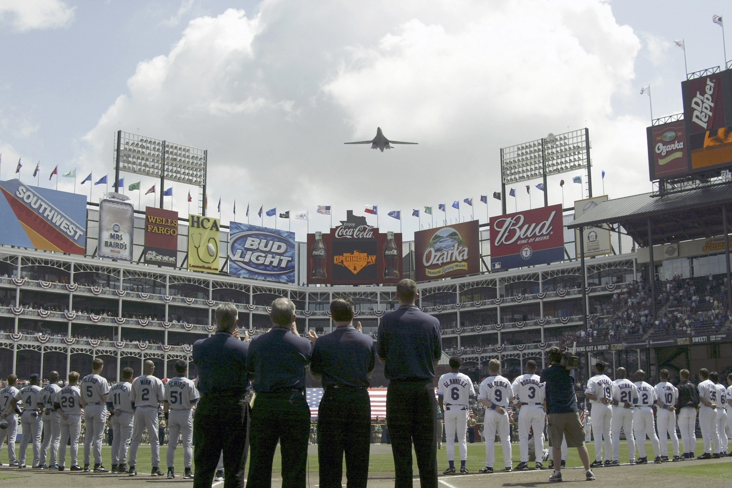 A US Air Force (USAF) B-1B Lancer Bomber from the 28th Bomb Squadron (BS), at Dyess Air Force Base (AFB), performs a low-level fly over the Texas Rangers during their first season home game, at their ballpark in Arlington, Texas.